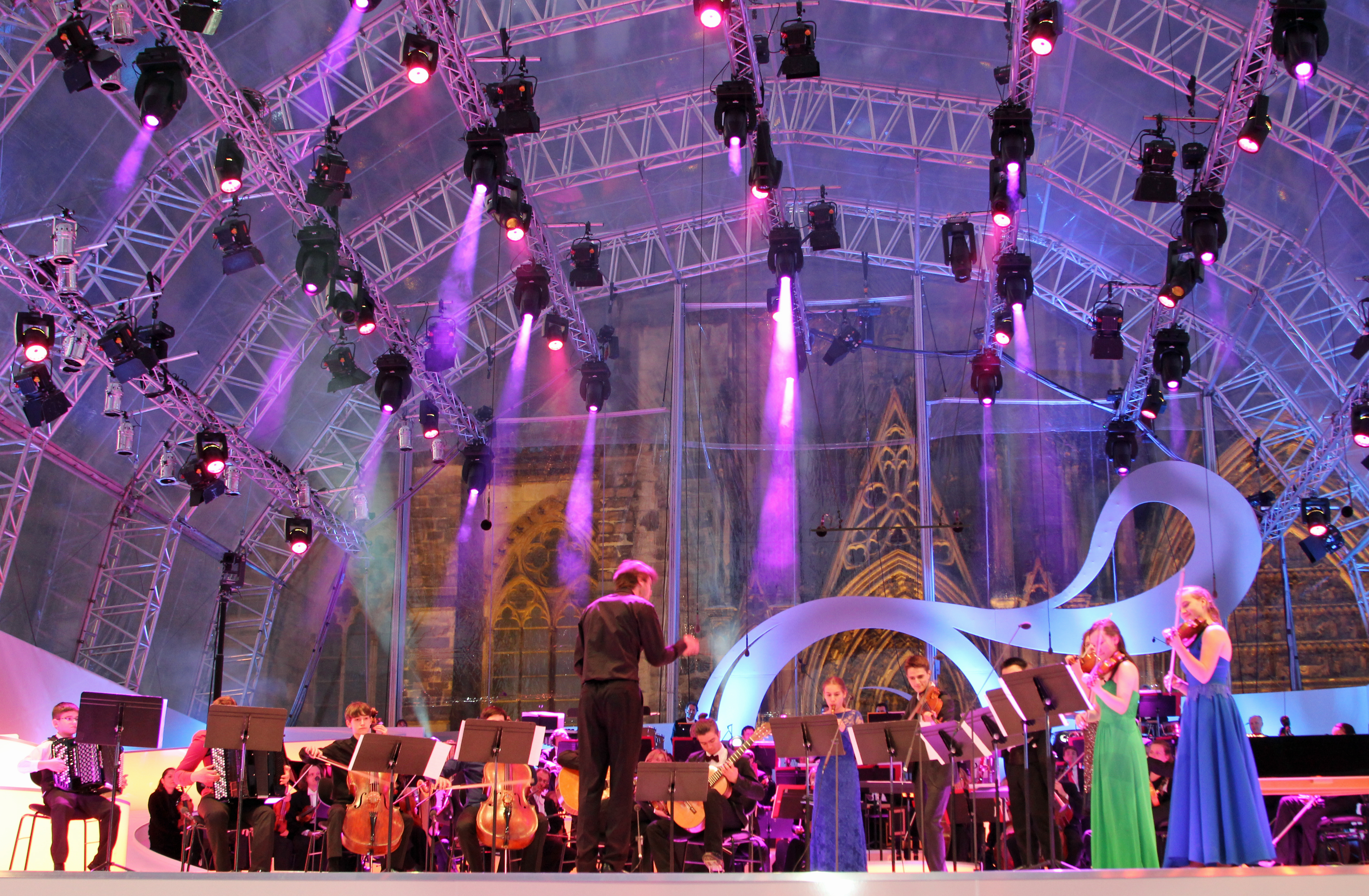 final rehearsal for Eurovision Young Musicians 2014